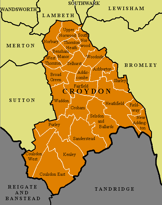 Ward map of the London Borough of Croydon, created in MS Paint.